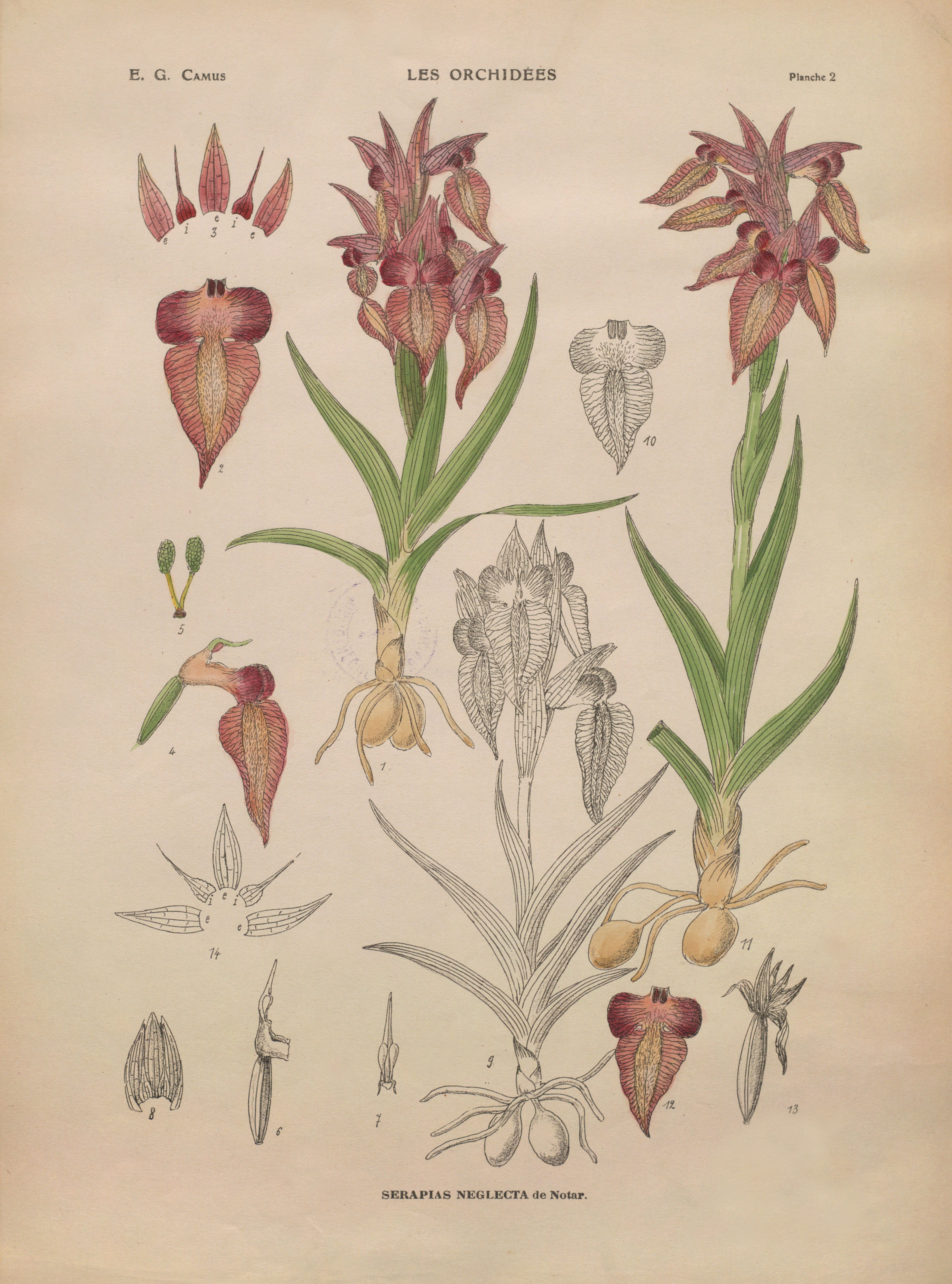 Serapias Neglecta de Notar.